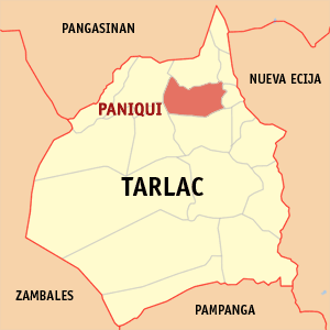 Map of Tarlac showing the location of Paniqui